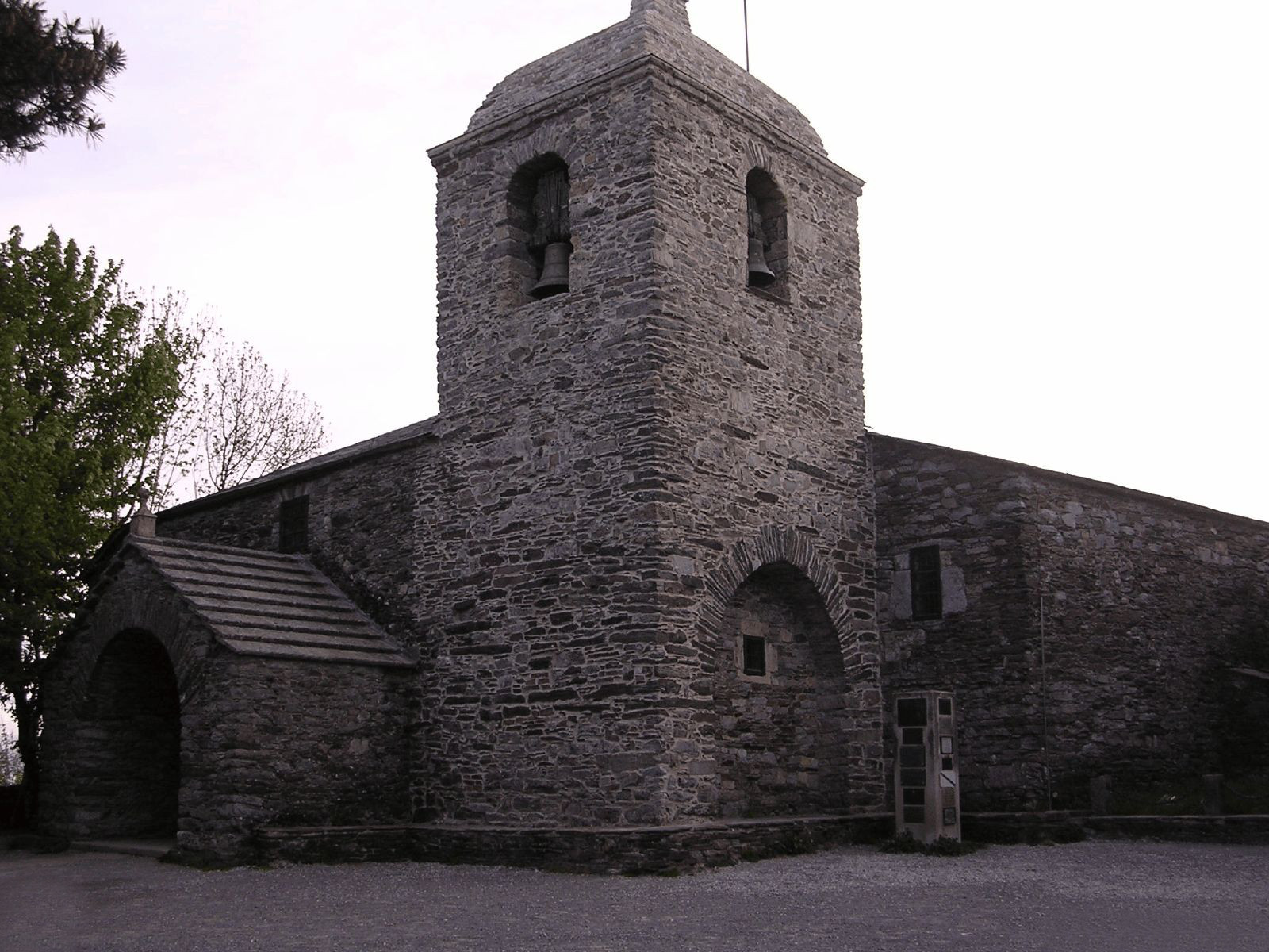 Church of Santa Maria in O'Cebreiro. - Pedrafita do Cebreiro - Lugo - Galiza - Spain